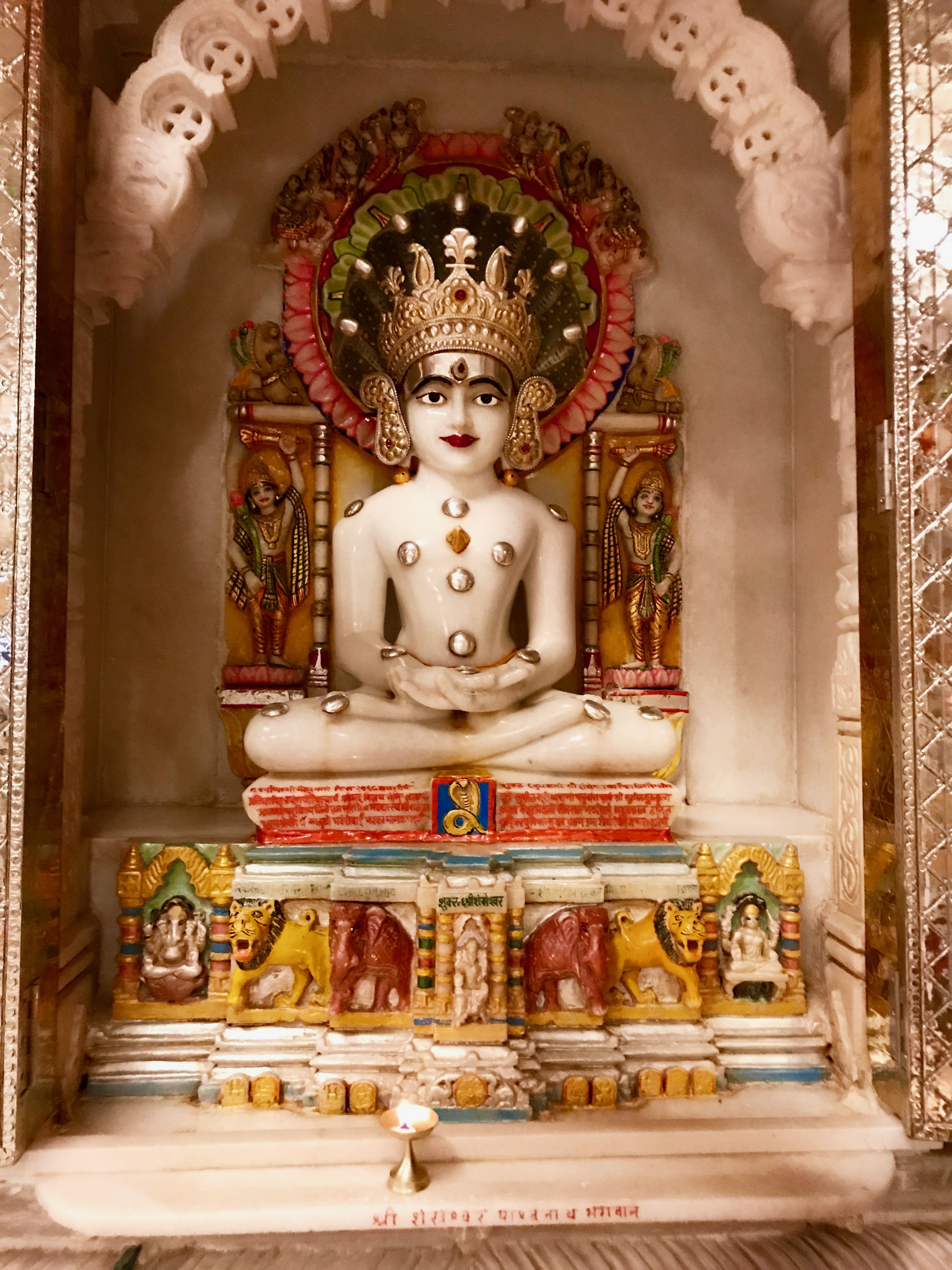 Parshvanatha Tirthankara idol in a Murtipujak Svetambara Mysuru Jain temple